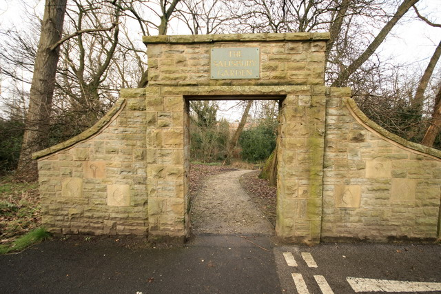 Entrance to Salisbury Woodland Gardens, Blackpool The new official-looking entrance, a few metres away from the old one on the corner. No information here - its at the old entrance.